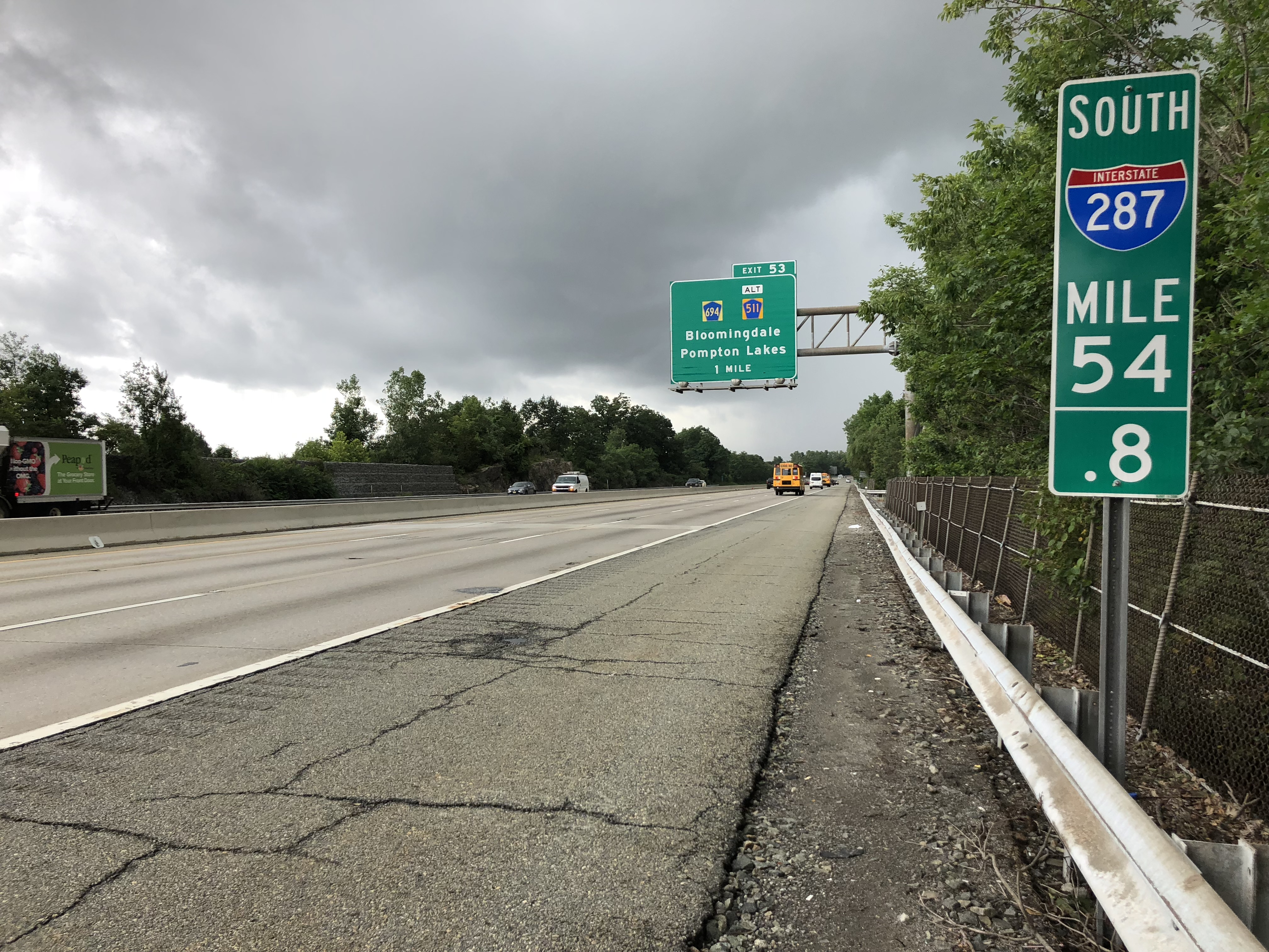 View south along Interstate 287 between Exit 55 and Exit 53 in Pompton Lakes, Passaic County, New Jersey